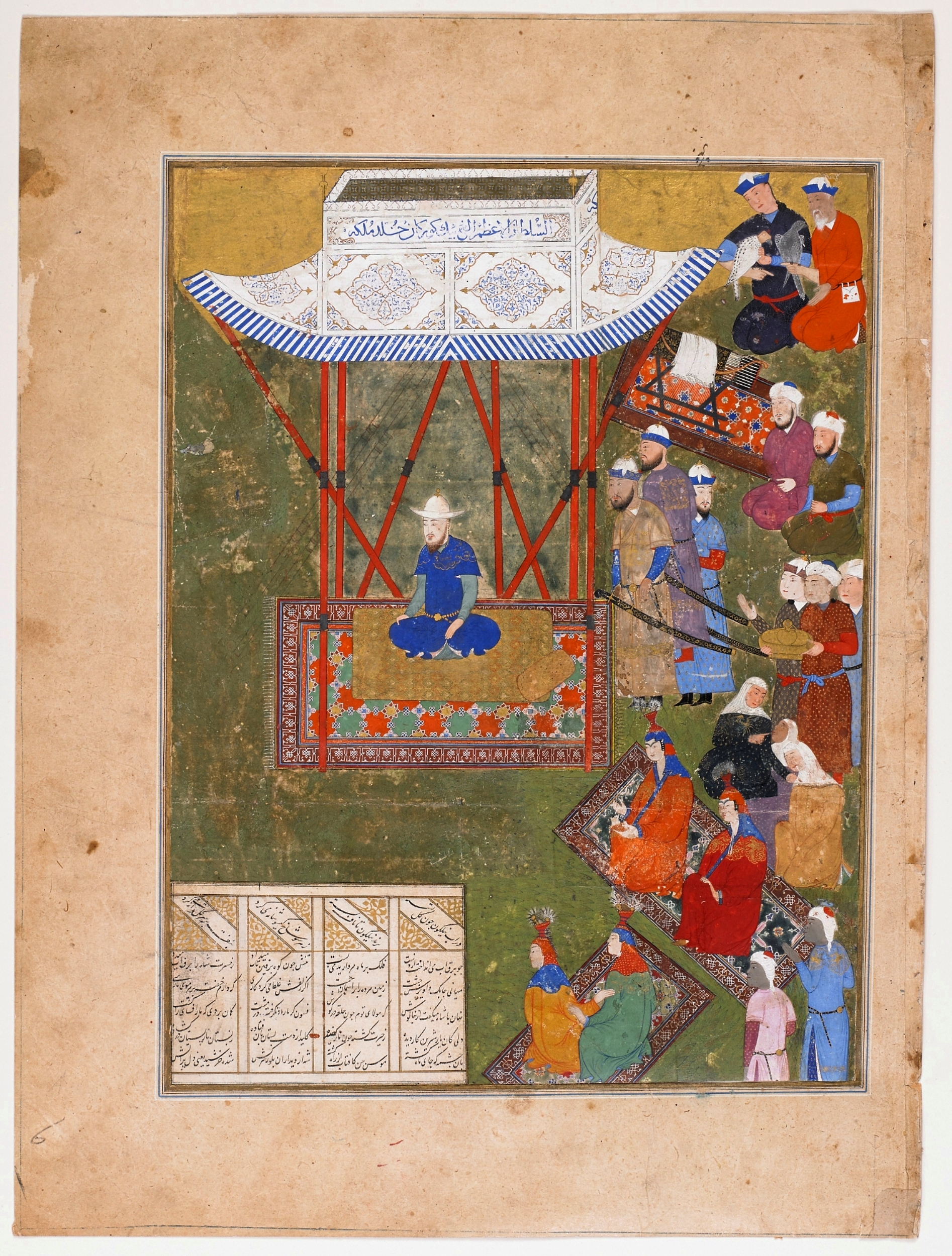 Ulugh Beg with ladies of his harem and retainers, Timurid 1425-50, Freer and Sackler Galleries